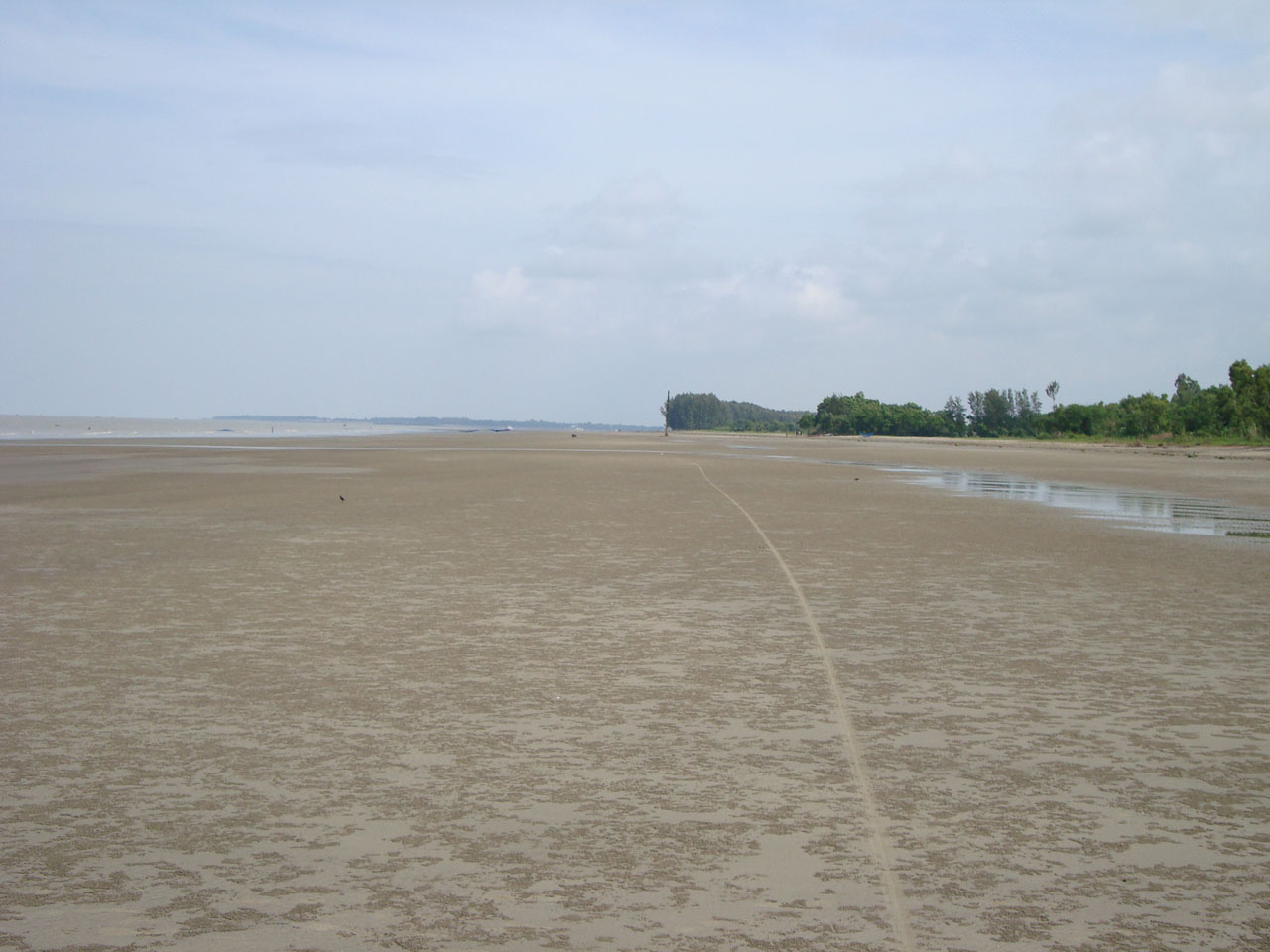 A partial view of Parki Sea Beach, Patenga, Chittagong (Near Kafco site)